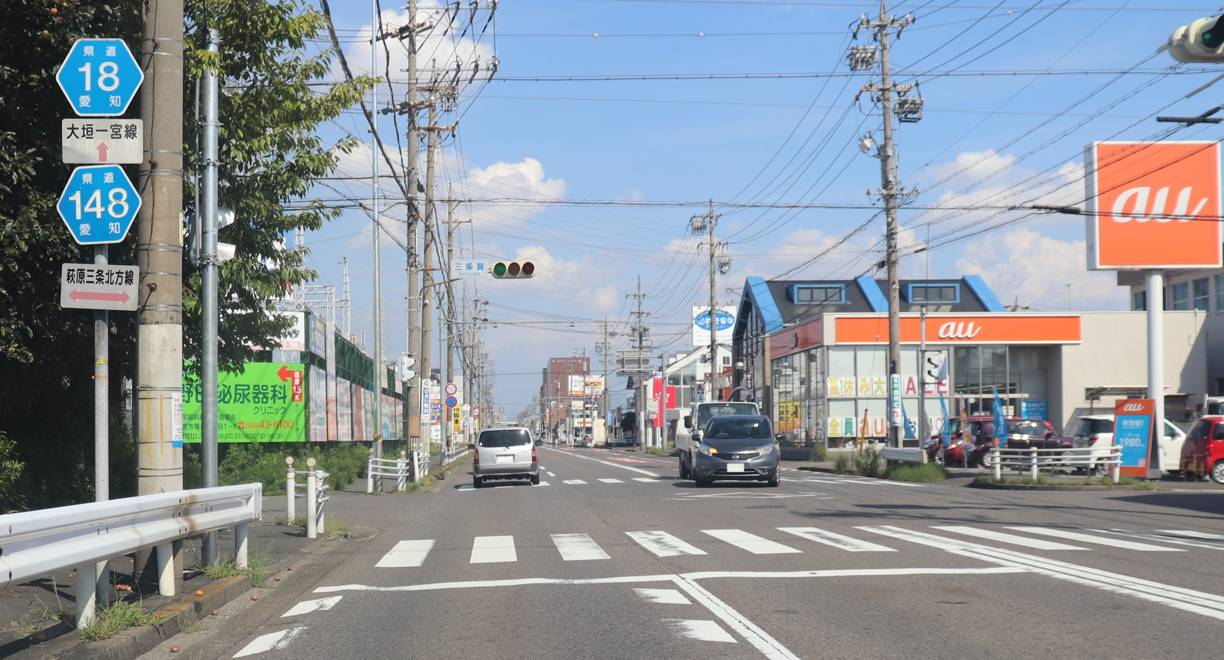 Aichi Prefectural Road Route 18 and Aichi Prefectural Road Route 148 in Sanjoga, Ichinomiya, Aichi Prefecture, Japan.